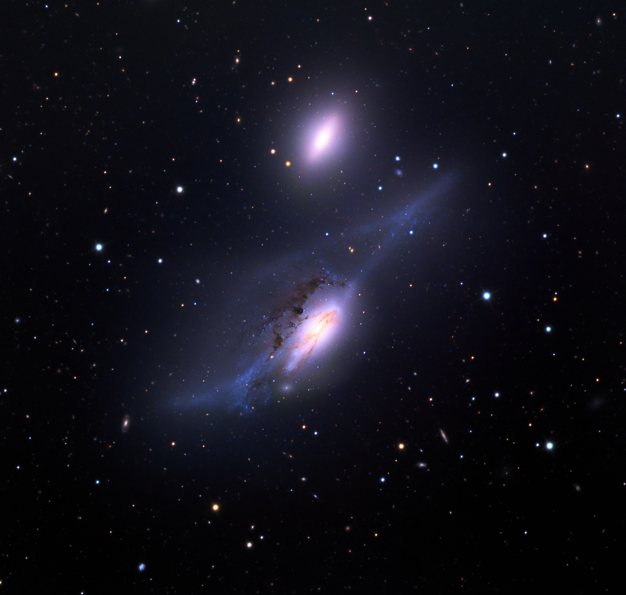 NGC 4438 and MGC 4435 interacting galaxies. 32 inch Schulman telescope on Mt. Lemmon, AZ.